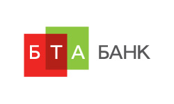 Logo of BTA Bank